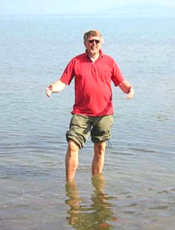 Prof. Eckhard Freise, standing in Lago Trasimeno during a field trip to Umbria